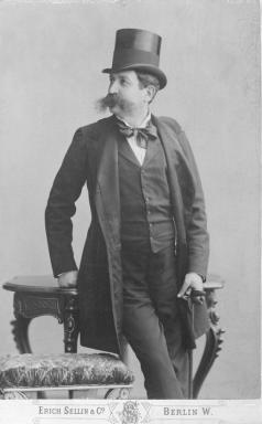 Angelo Neumann